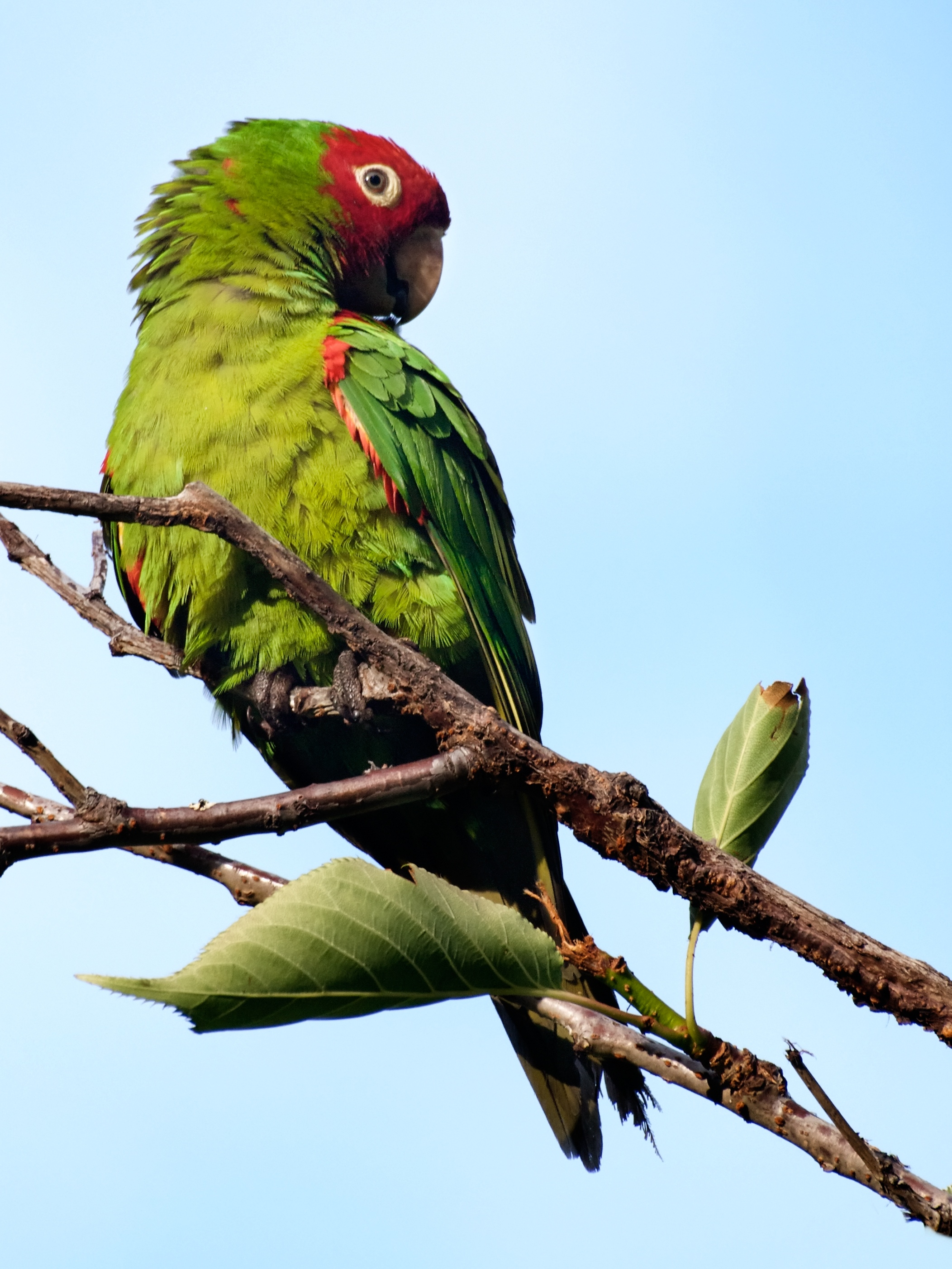 Red-masked Parakeet preening on a branch in San Francisco, USA